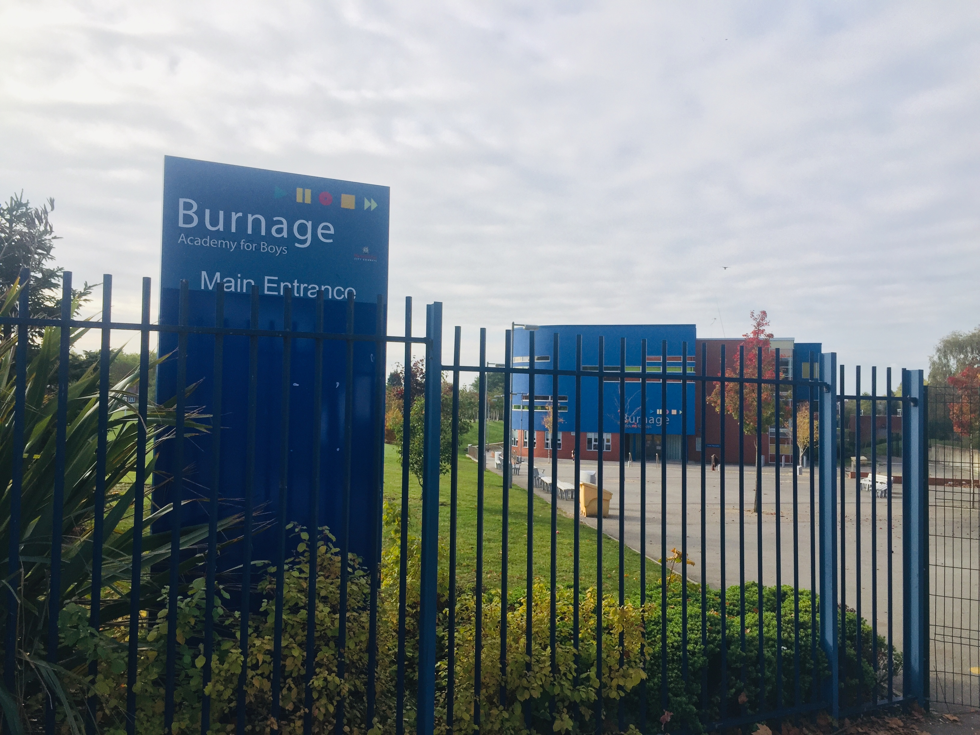 Burnage Academy, Manchester, north-west England